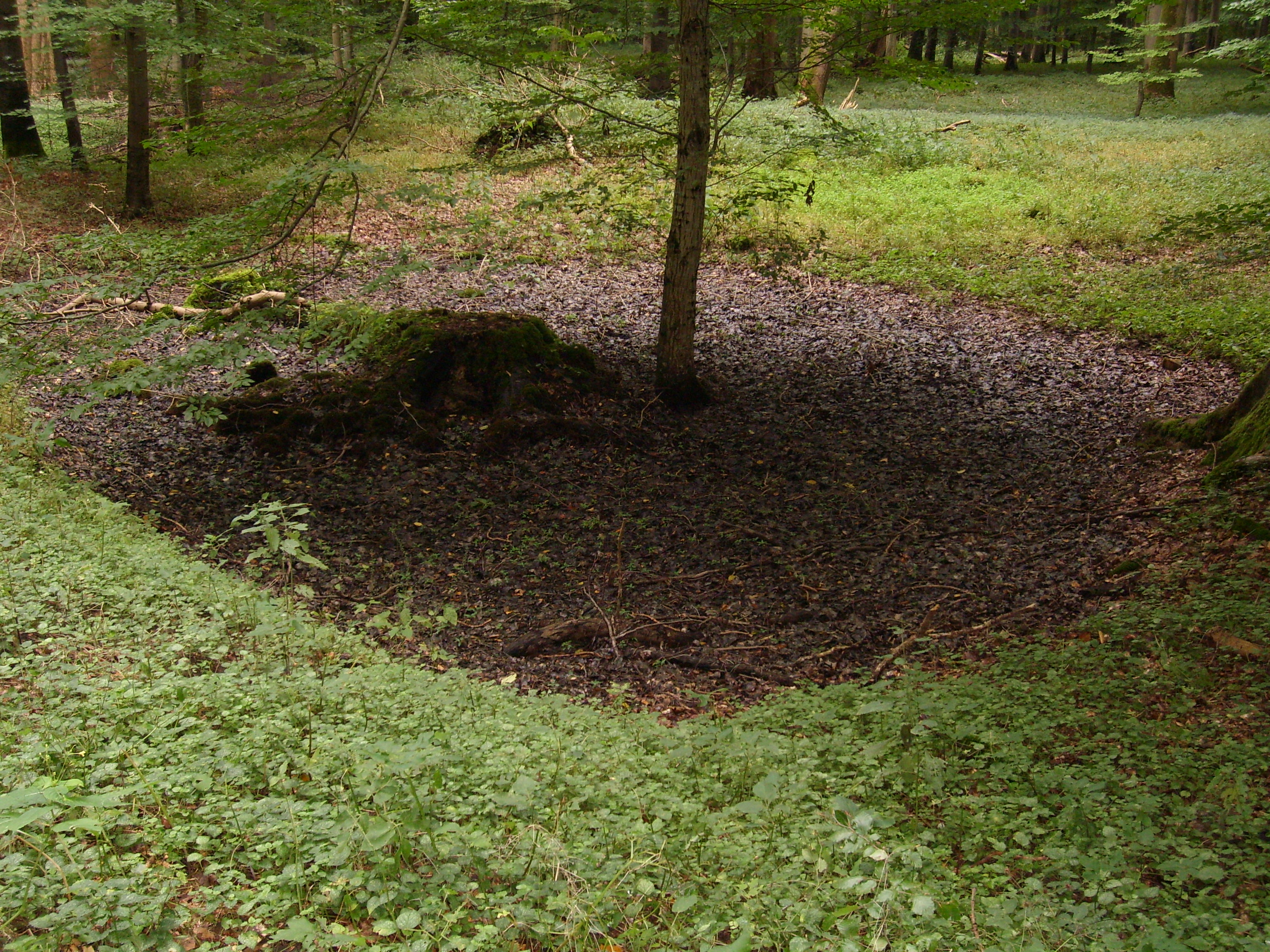 Swale beside a way in the nature reserve "Eldena" near Greifswald, Germany